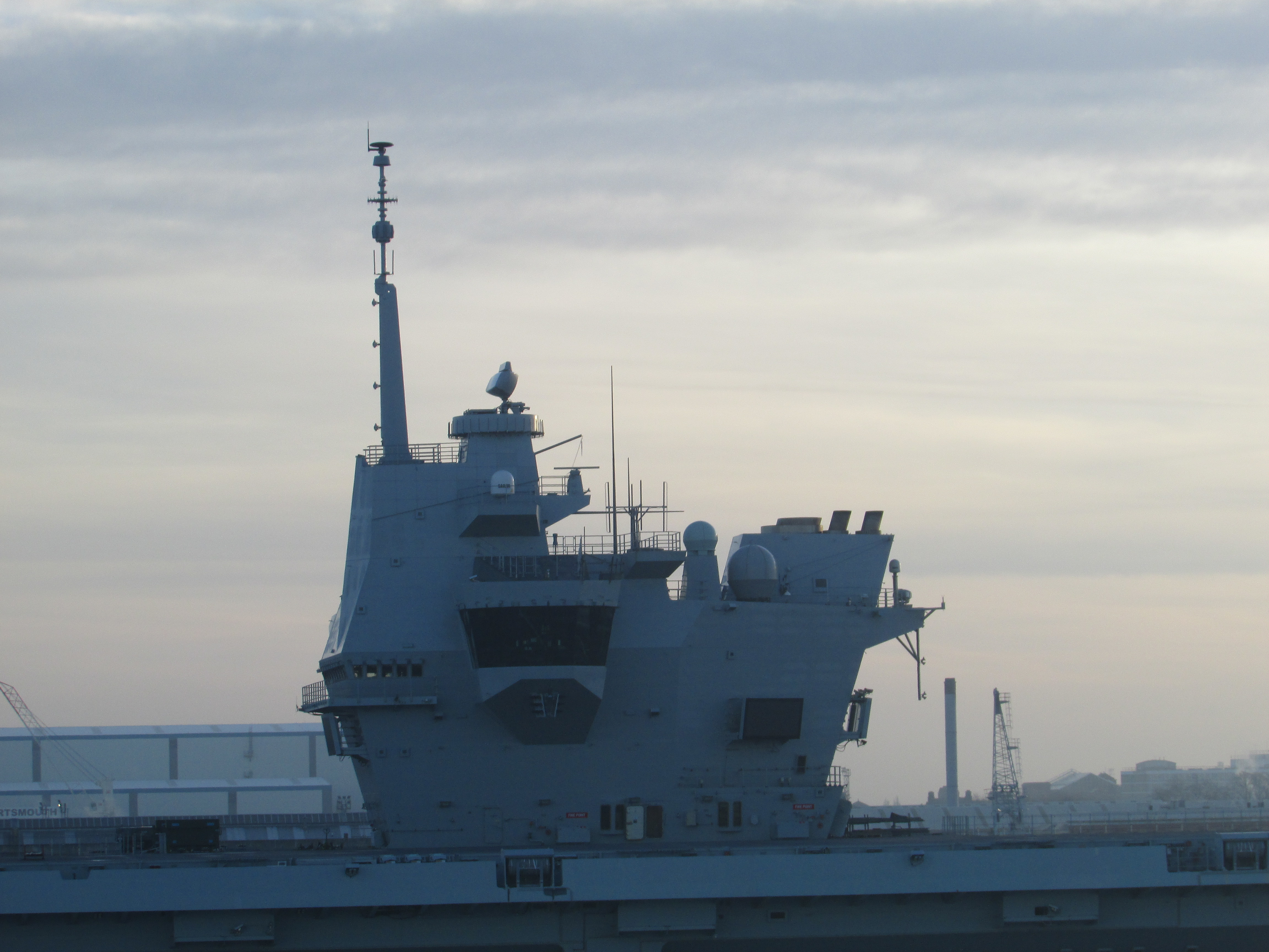 The primary flight operations tower mid-ship of the aircraft carrier HMS Queen Elizabeth located in the Naval dockyards in the city of Portsmouth.